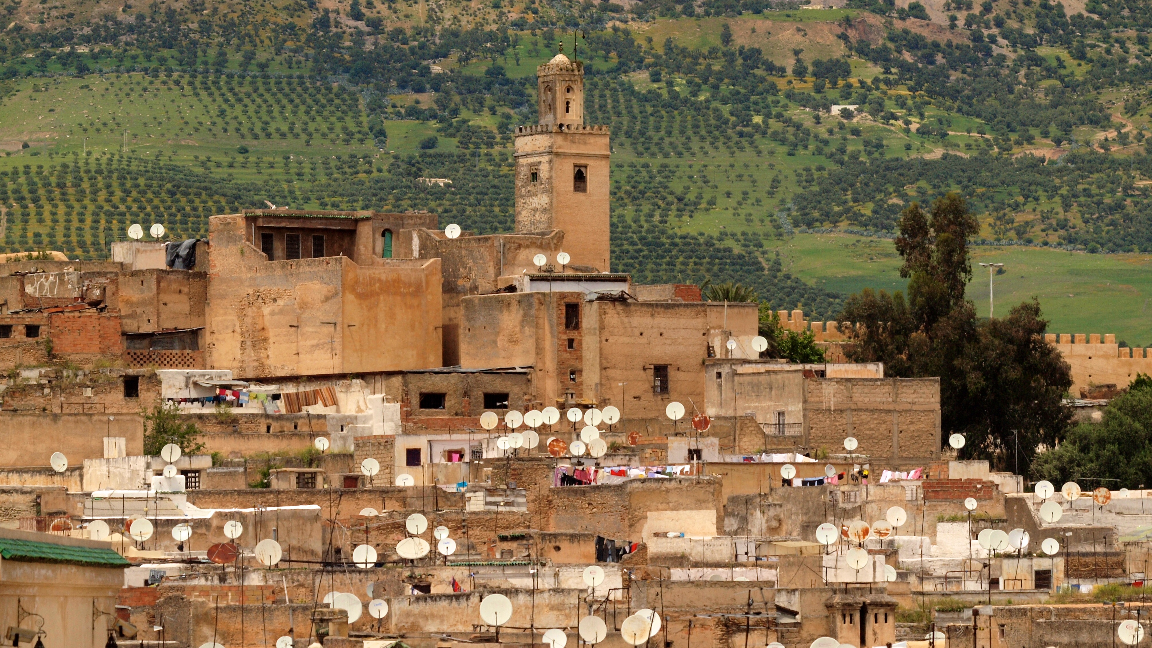 Typical skyline view of a town in Morocco. Fez, Morocco (@torrenegra).